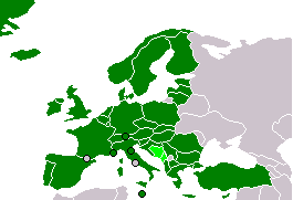 dark green - contracting; light green - extension